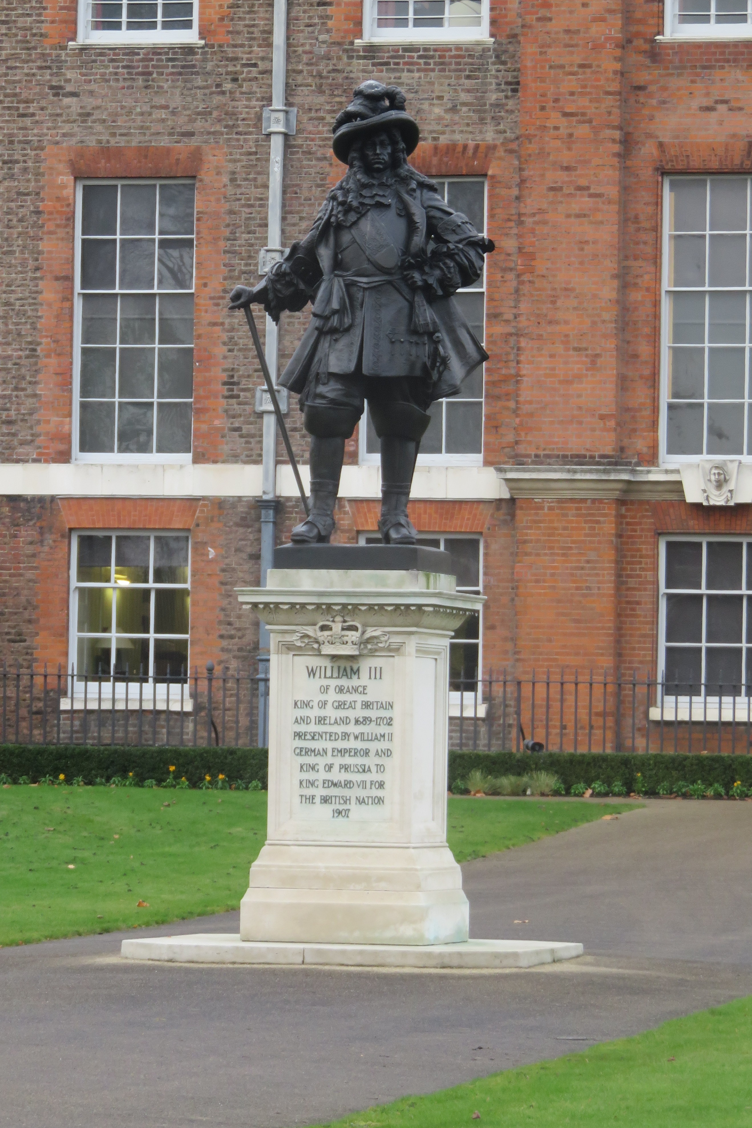 William III of England, Kensongton Palace